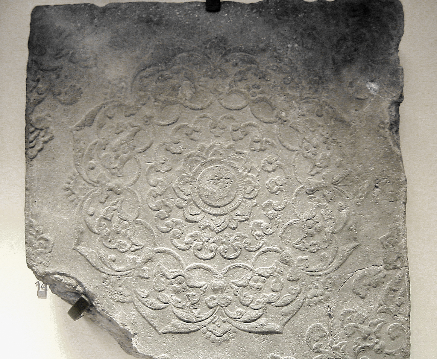 Decorated slab, Silla kingdom, 8th century.